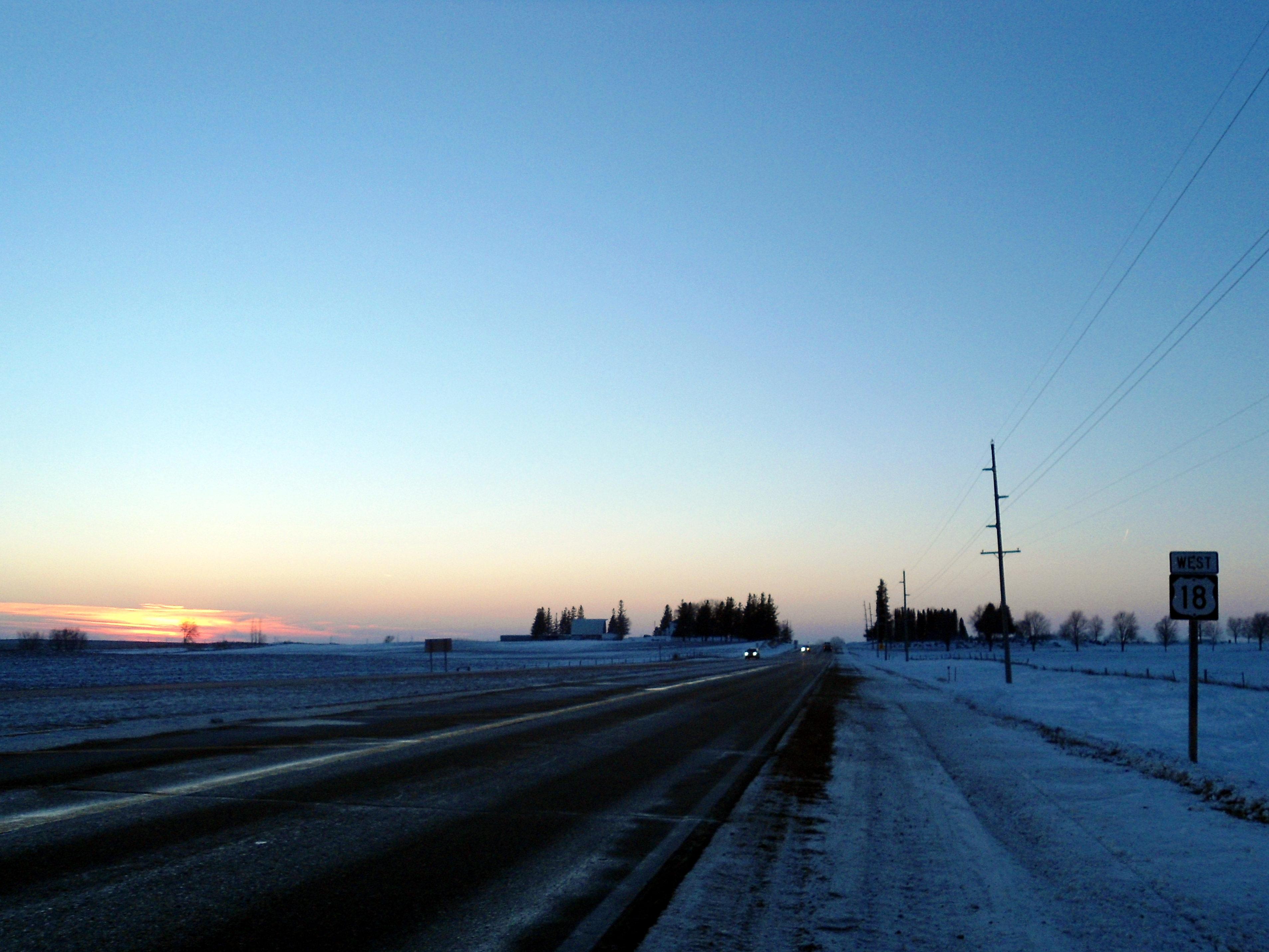 US 18 just west of the US 69 intersection near Garner, IA.